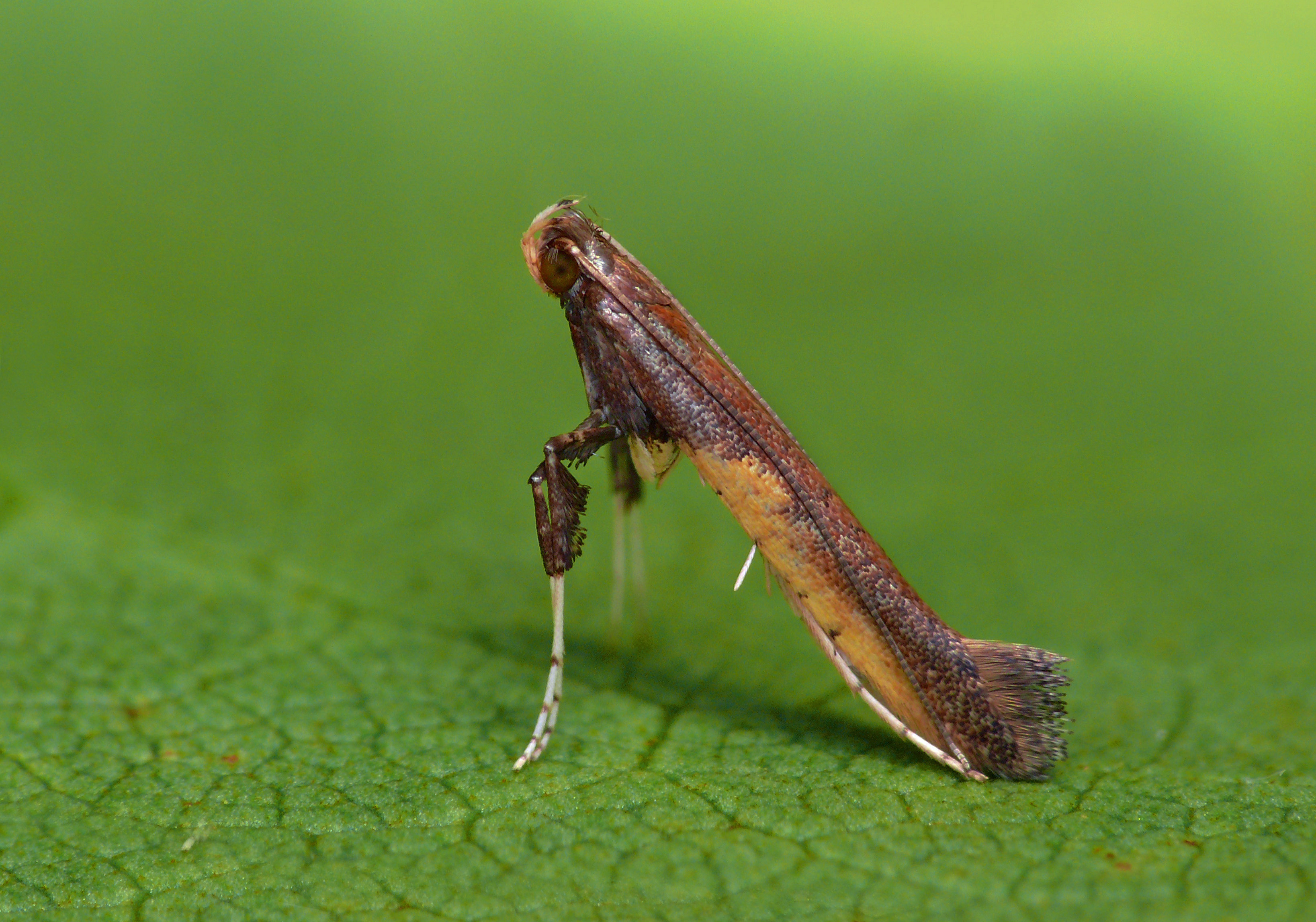 This moth is endemic to Japan but is spreading around the globe being accidentally introduced to many countries including the US and UK. The food plants are Azaleas and Rhododendrons.